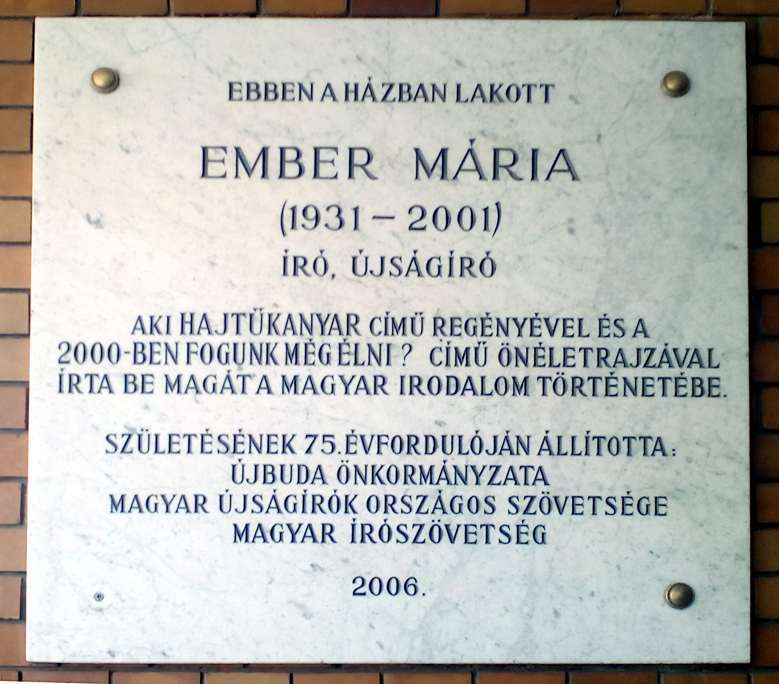 Mária Ember commemorative plaque in Budapest District XI, Fehérvári Street No 31.